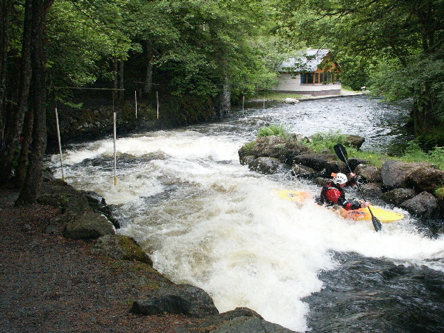 White Water Centre. Just one short section of the National White Water Centre on the Afon Tryweryn, Near Bala, North Wales.